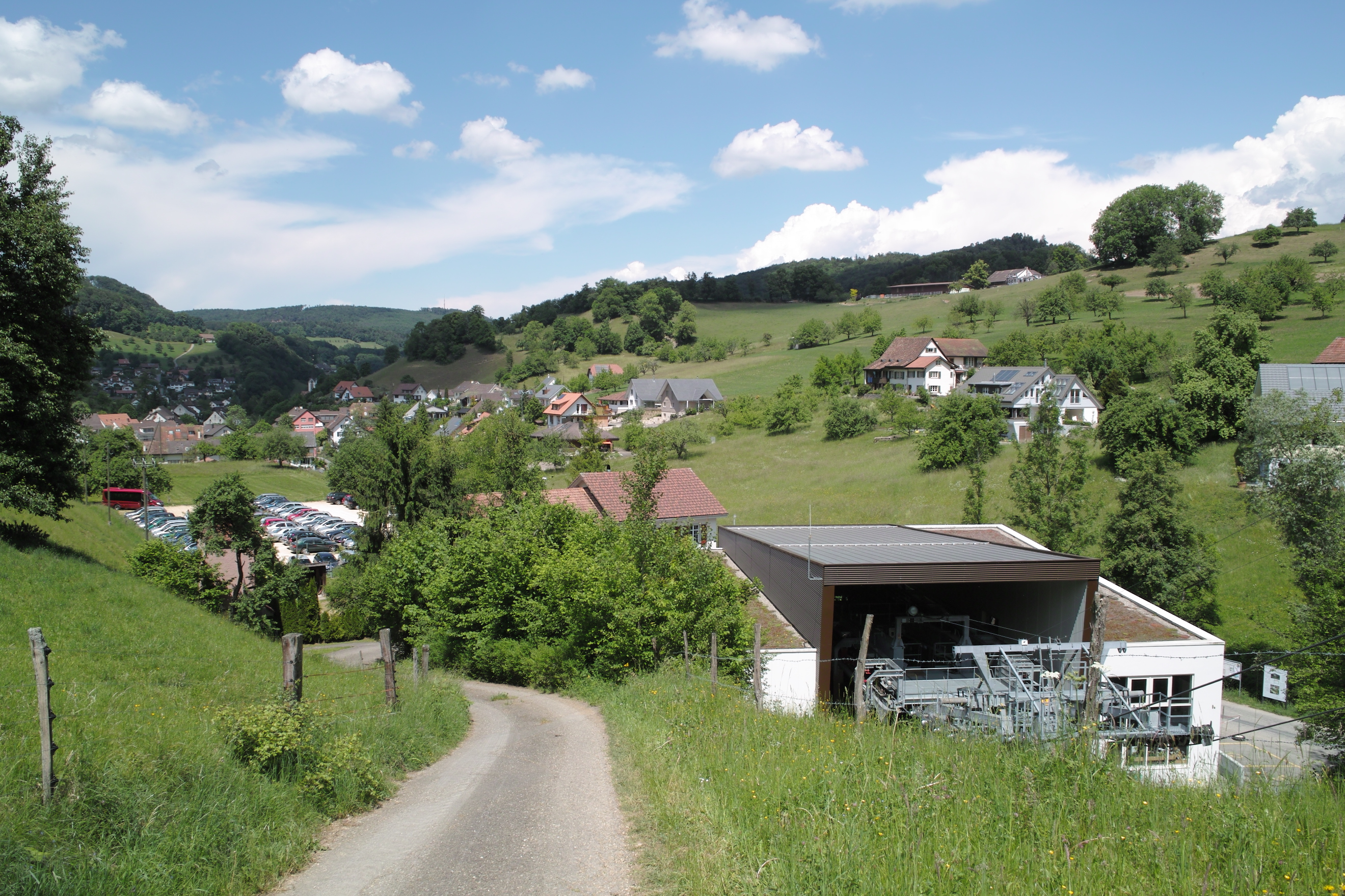 View of Reigoldswil, canton of Basel-Country, Switzerland, with lower station of gondola lift to Wasserfallen.